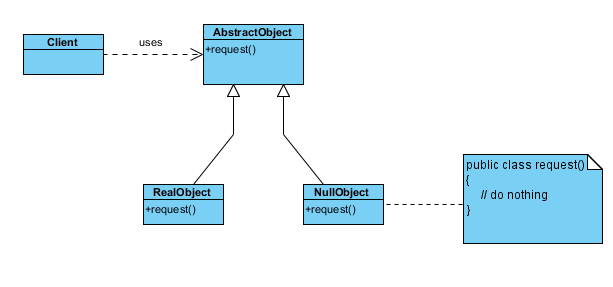 UML class diagram of the Null Object design pattern. The drawing was made in Visual Paradigm.